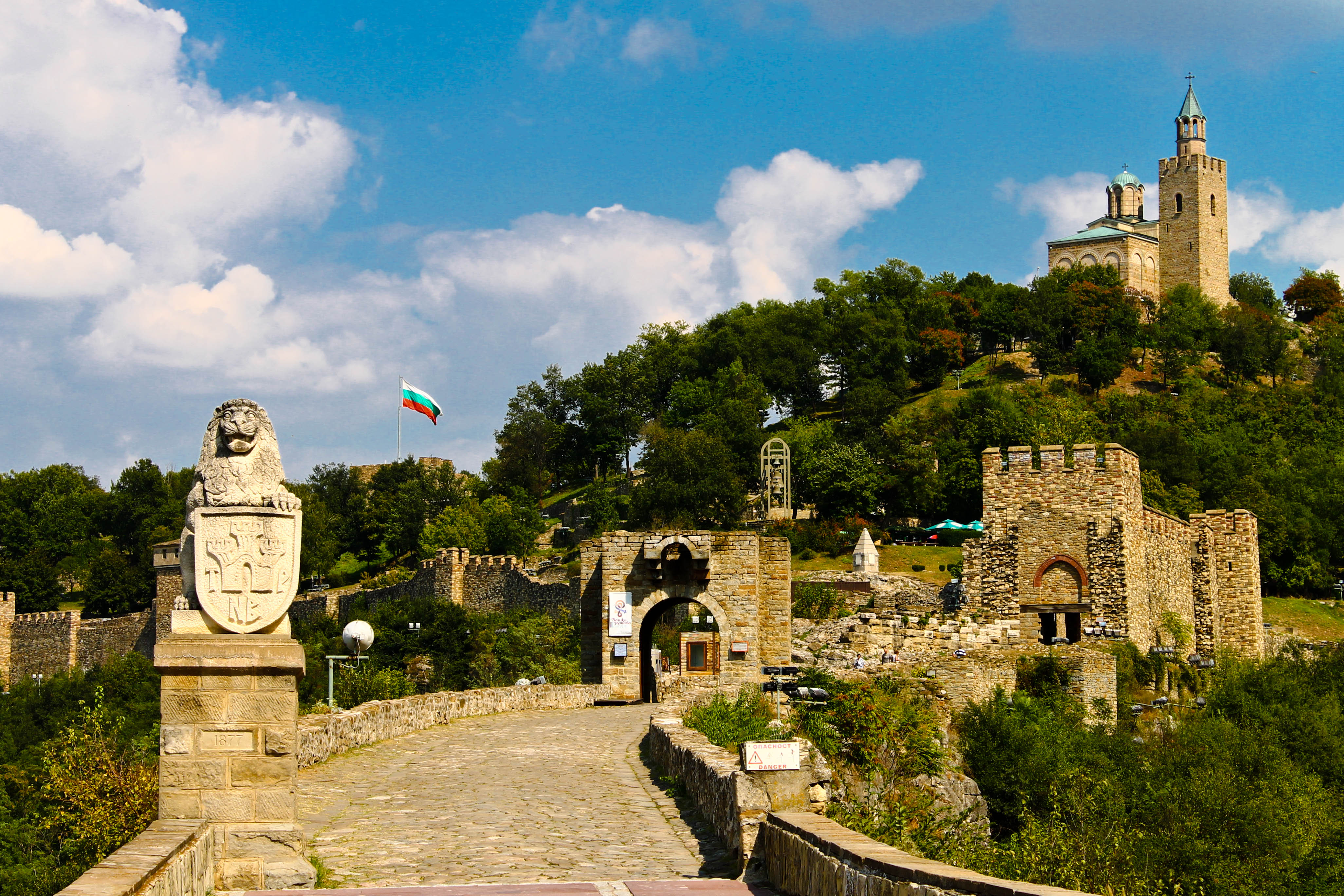 The entrance to Tsarevets Fortress and Patriarchal Cathedral